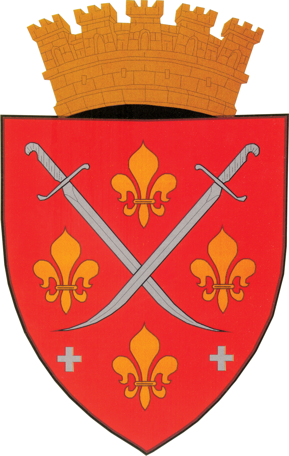 Coat of arms of the town Floreşti, in Moldova